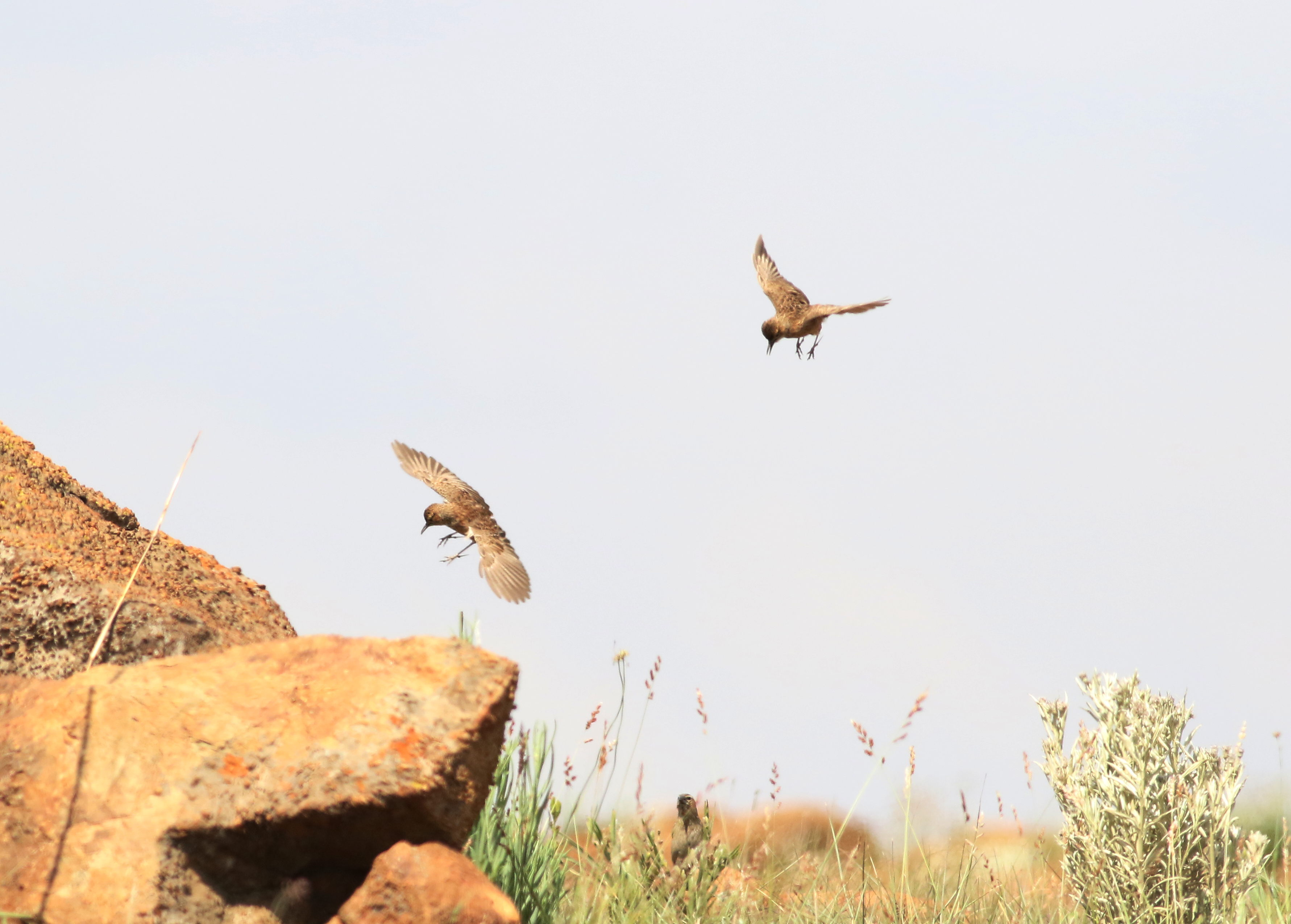 Spike-heeled lark, Chersomanes albofasciata, at Suikerbosrand Nature Reserve, Gauteng, South Africa